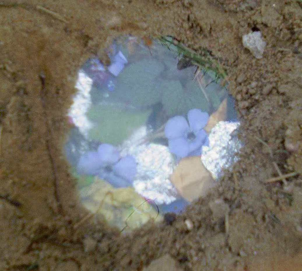 polish children creative play Widoczek(scape)